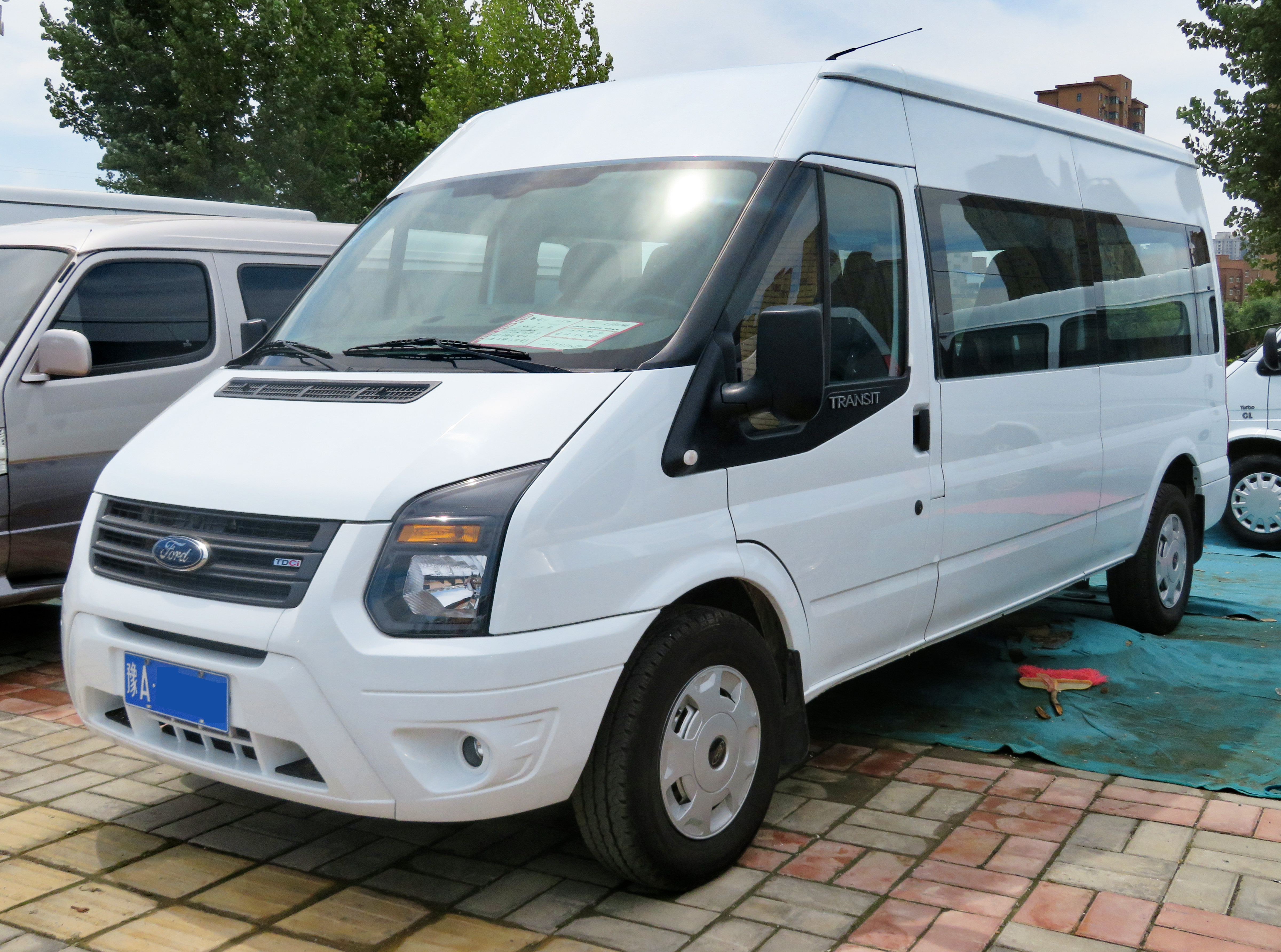 A 2016 JMC-Ford Transit (facelift) LWB photographed at a used car market in Zhengzhou, Henan province, China